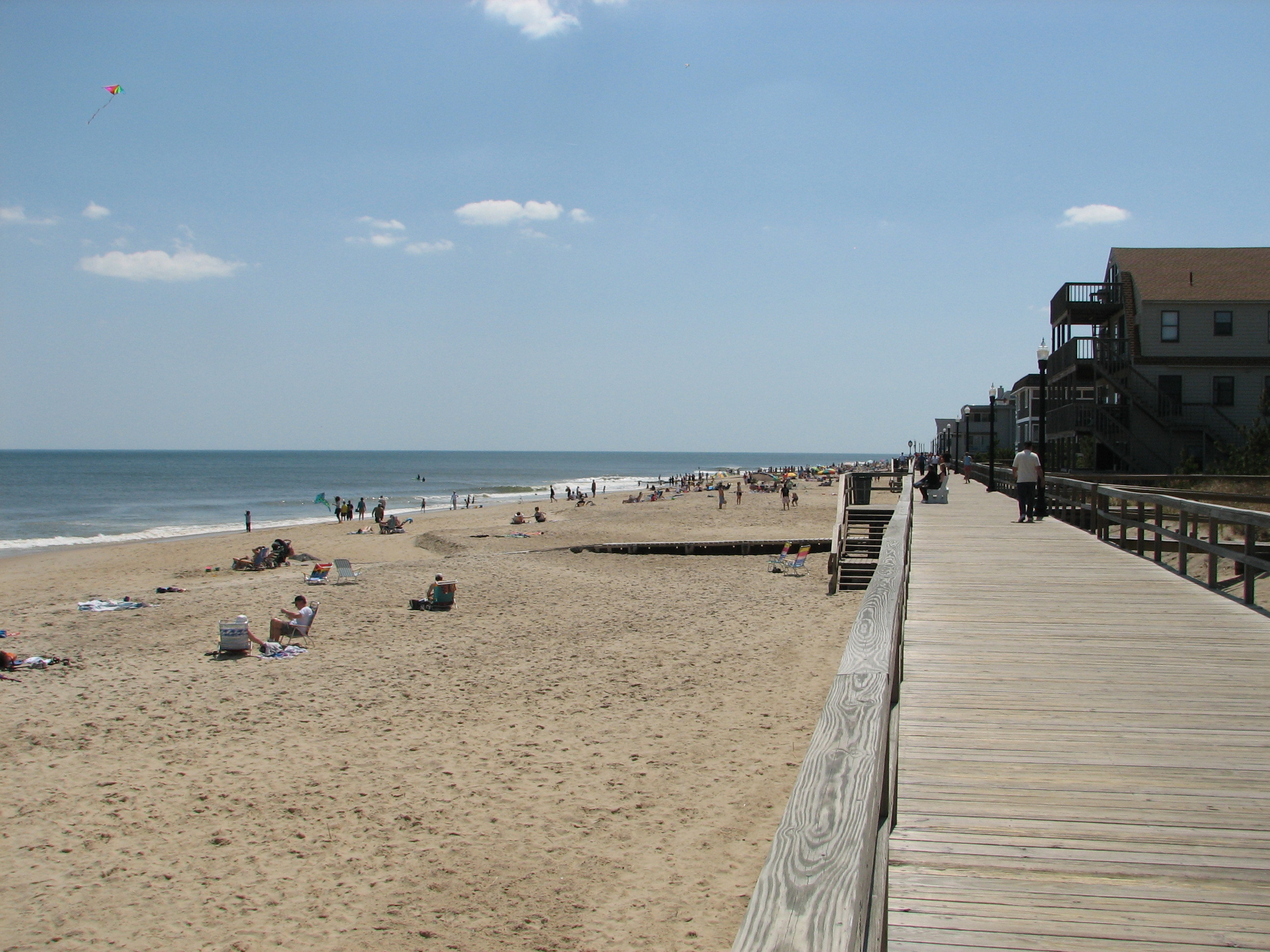 Photo by Kit Conn